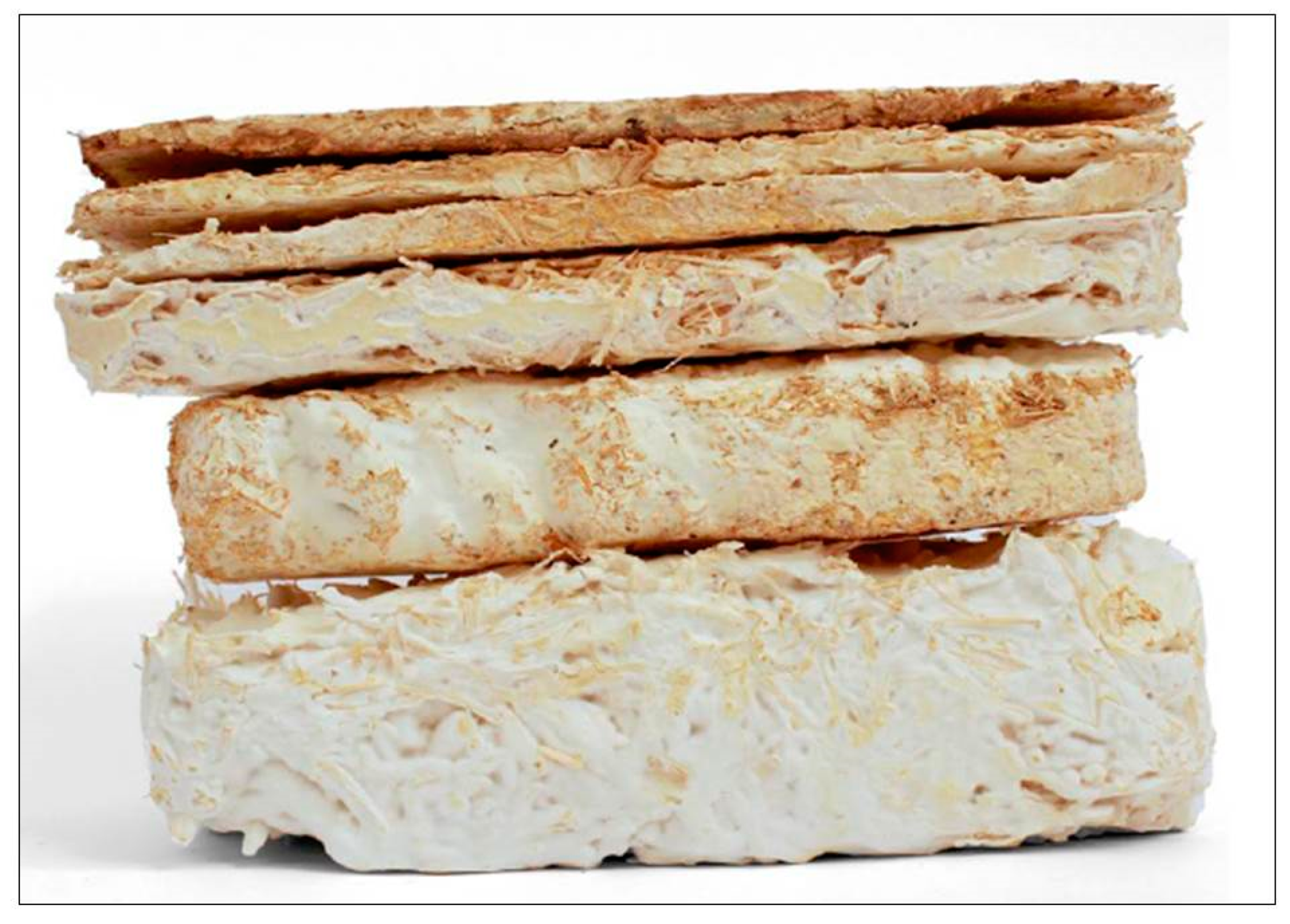 This is the example of the structure of mycelium based composite in a form of foam.